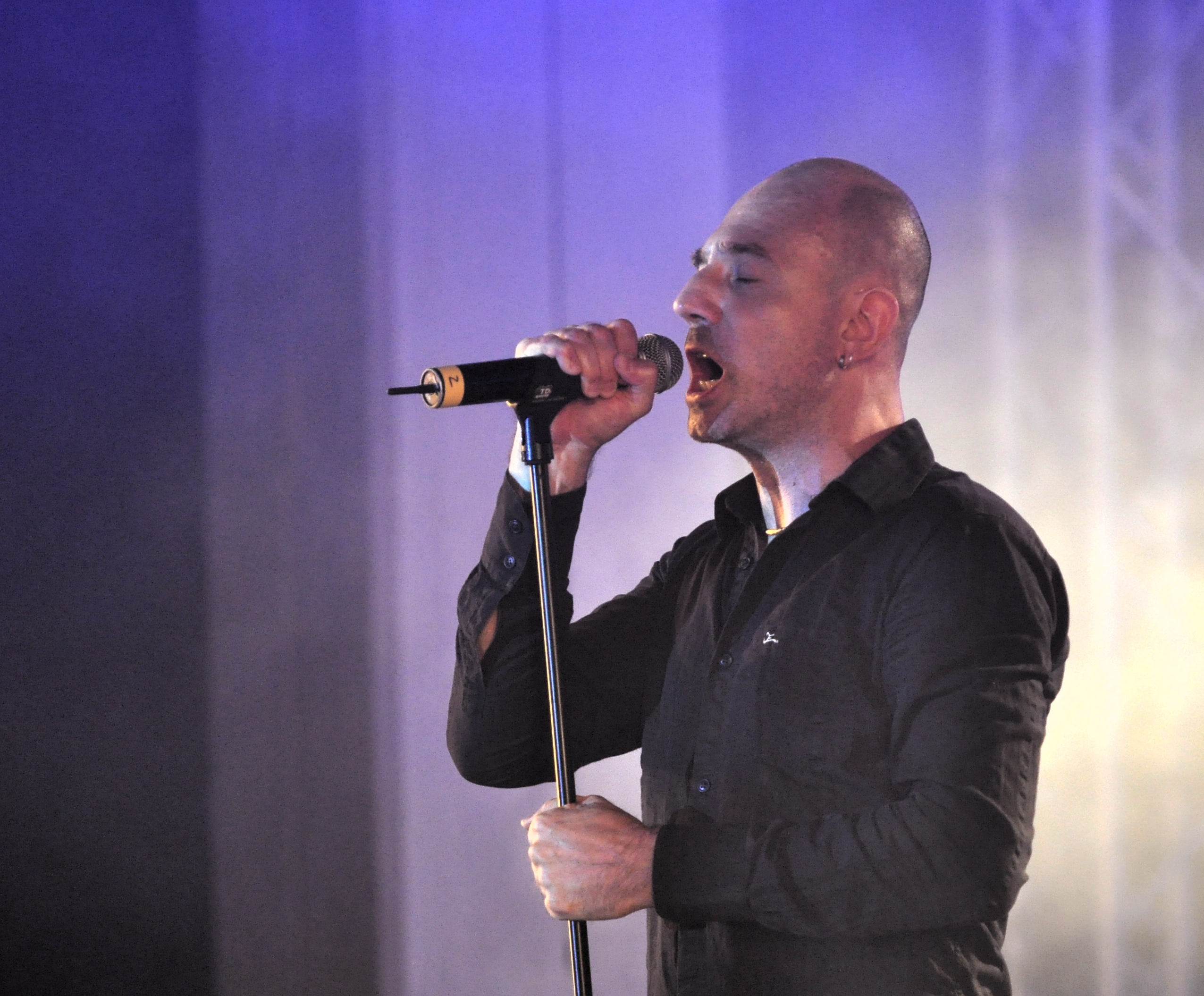 Stephen Keth of De/Vision at Amphi Festival 2013, Cologne, Germany